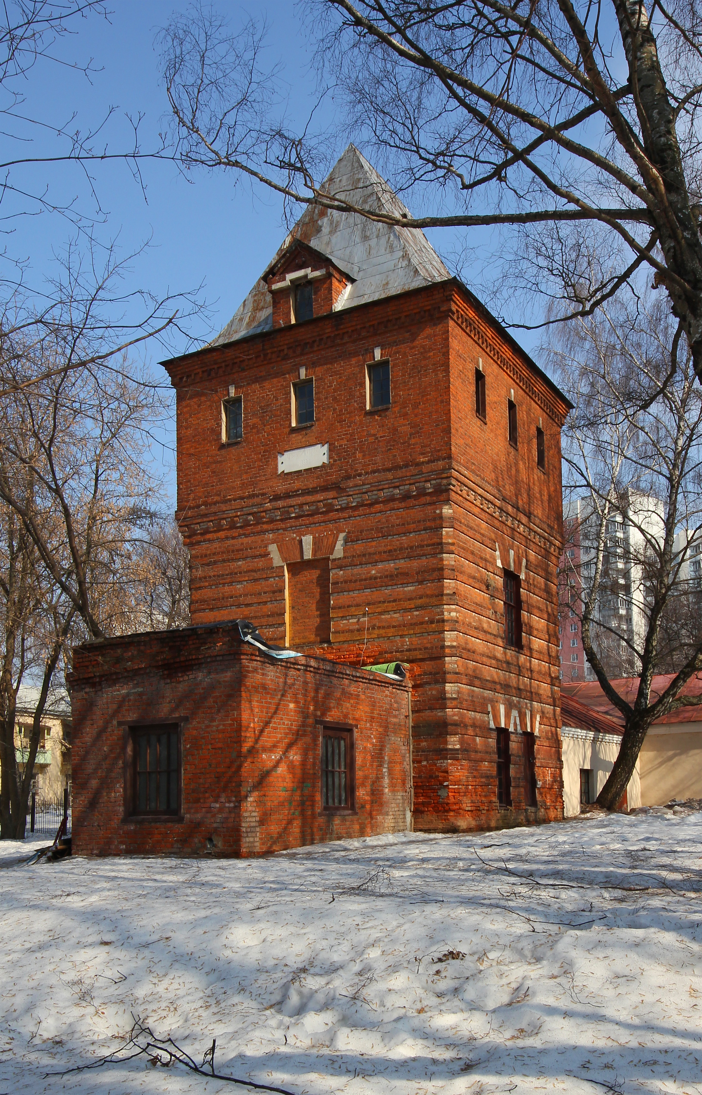 The former Bratzevo Estate in Tushino, Moscow.